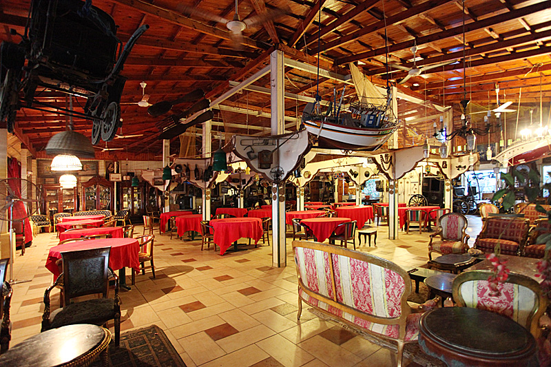 Seagull fish restaurant, Alexandria, Egypt